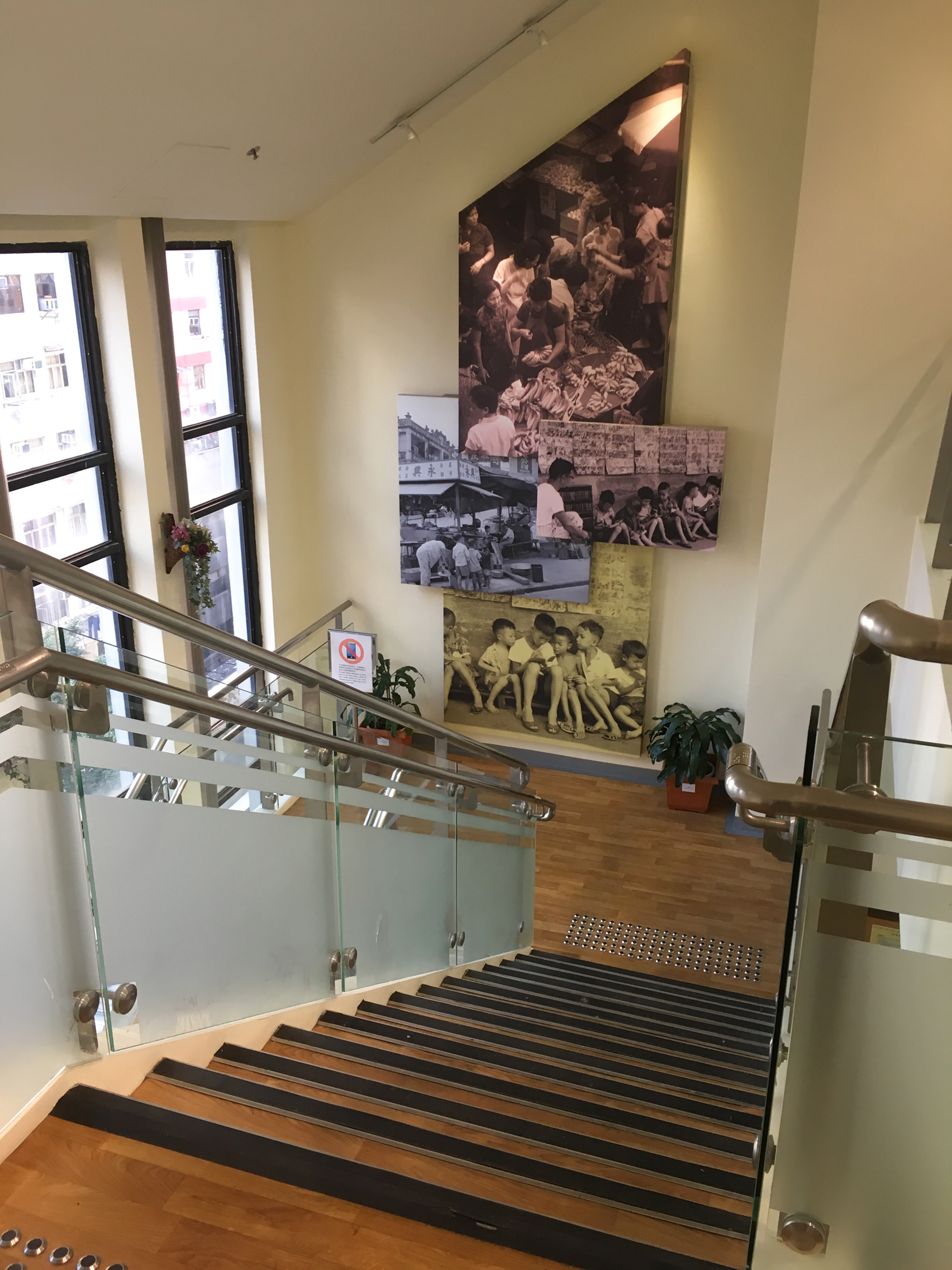 Lockhart Road Library stairs void